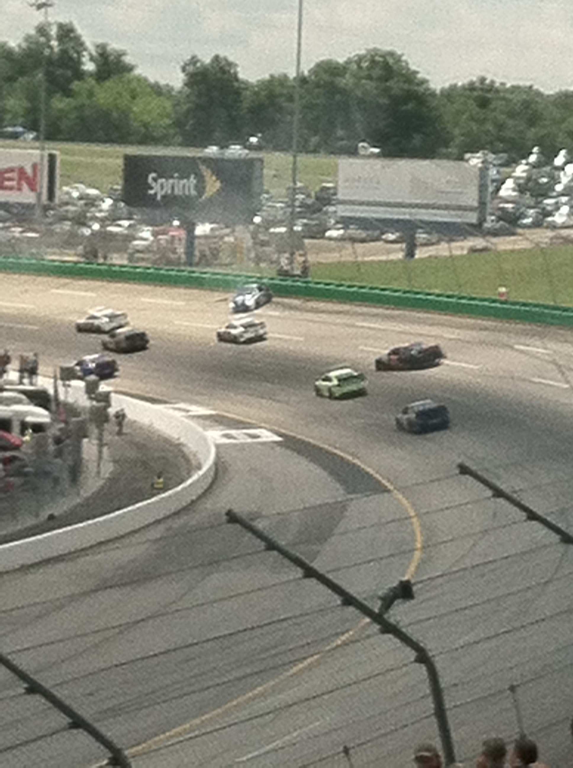 Brad Keselowski goes for a spin that takes out multiple cars at Kentucky Speedway.